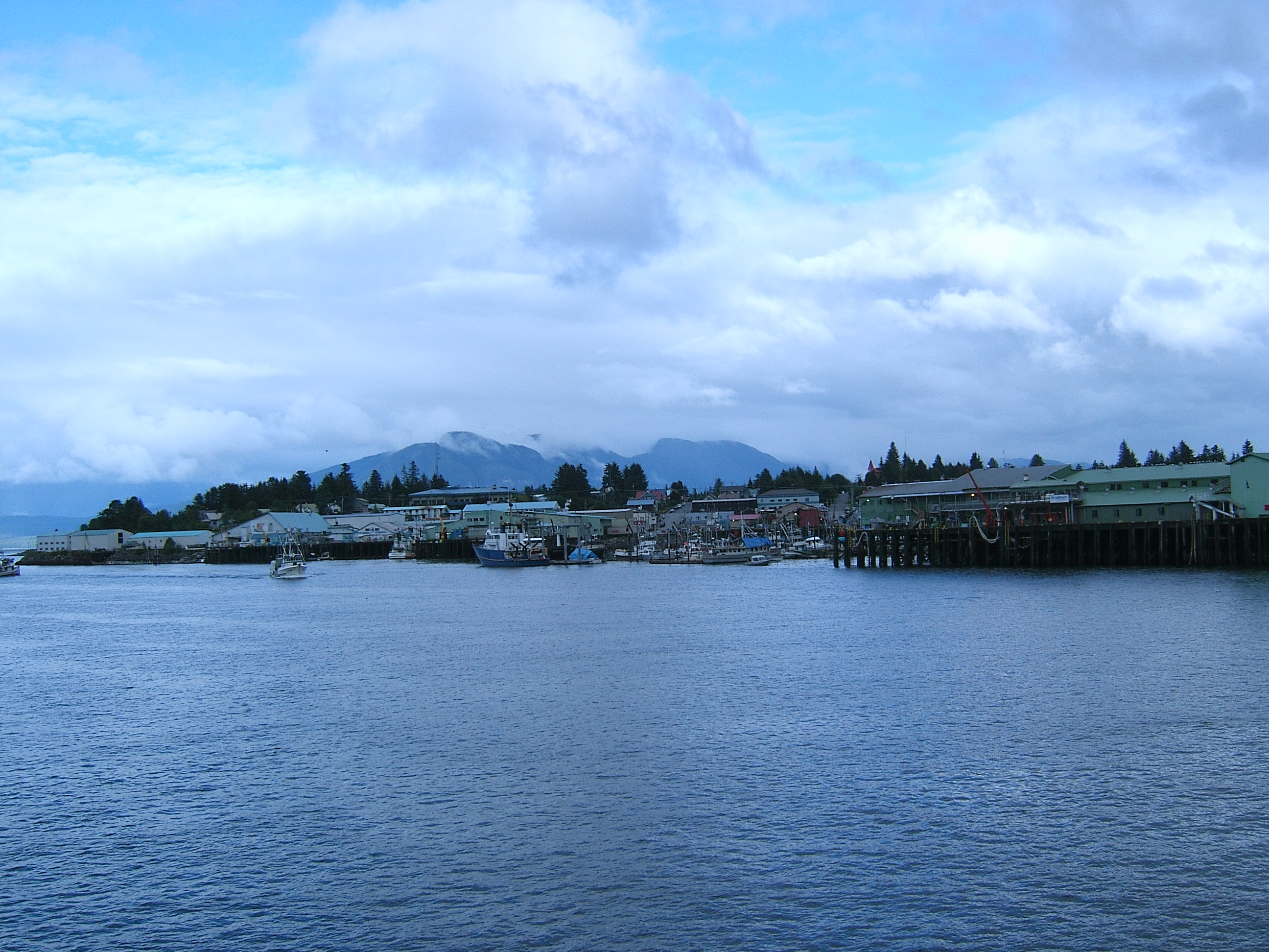 The waterfront of Petersburg taken by myself.